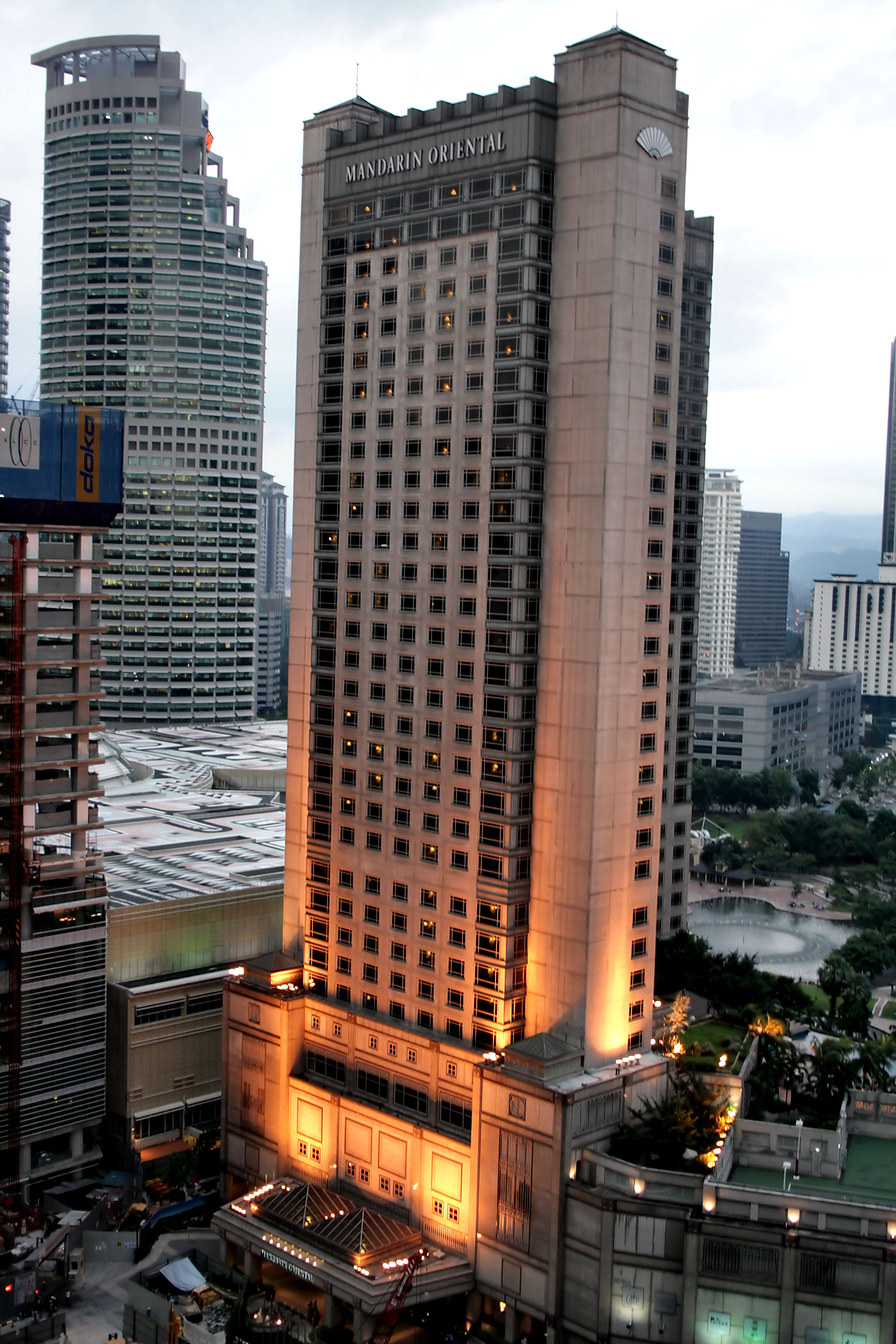 A view of Mandarin Oriental, Kuala Lumpur in June 2010.